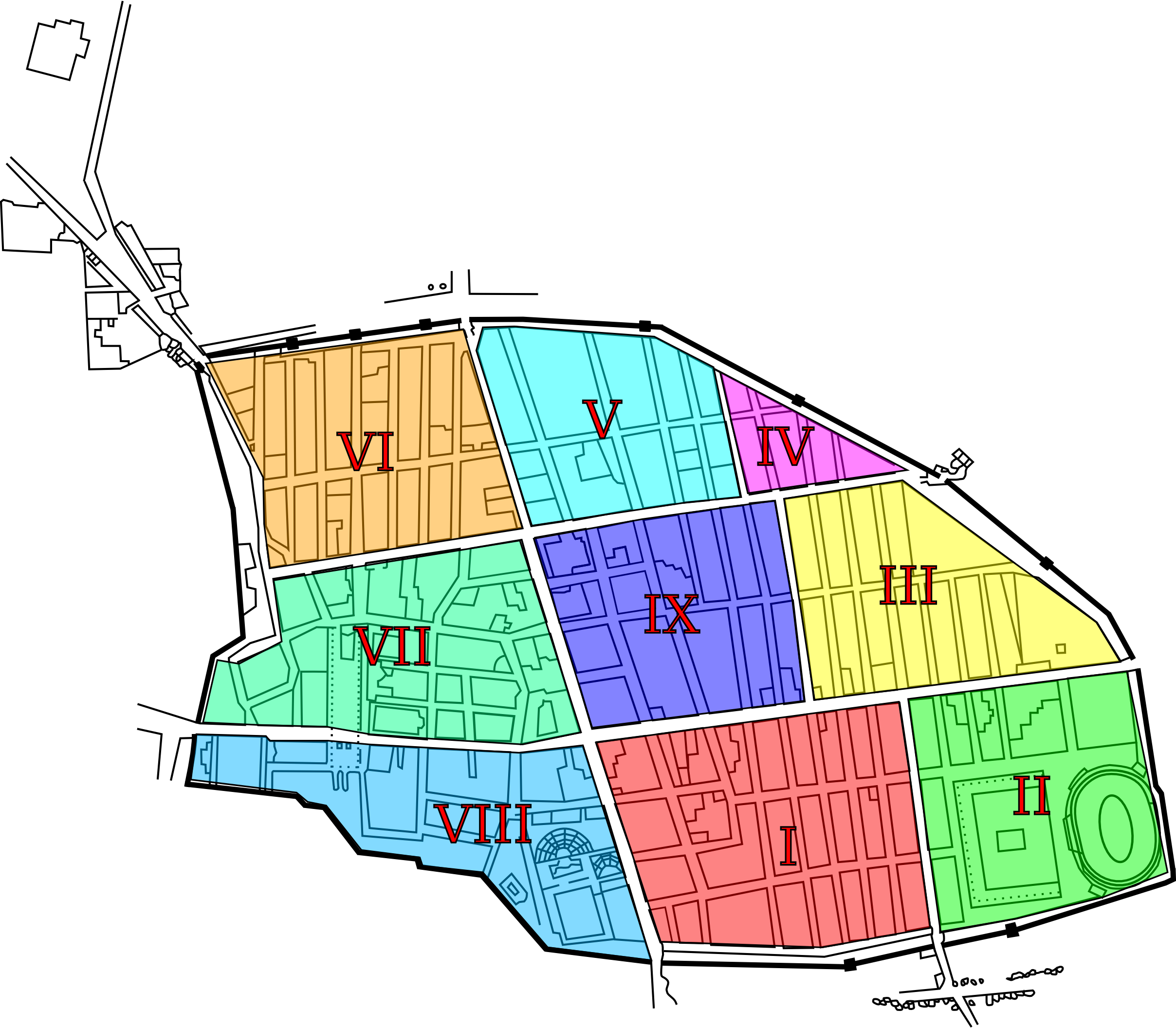 Plan of Pompei with regio boundary and name layers added. Based on File:Pompei plan.svg by User:M.violante. PNG version.